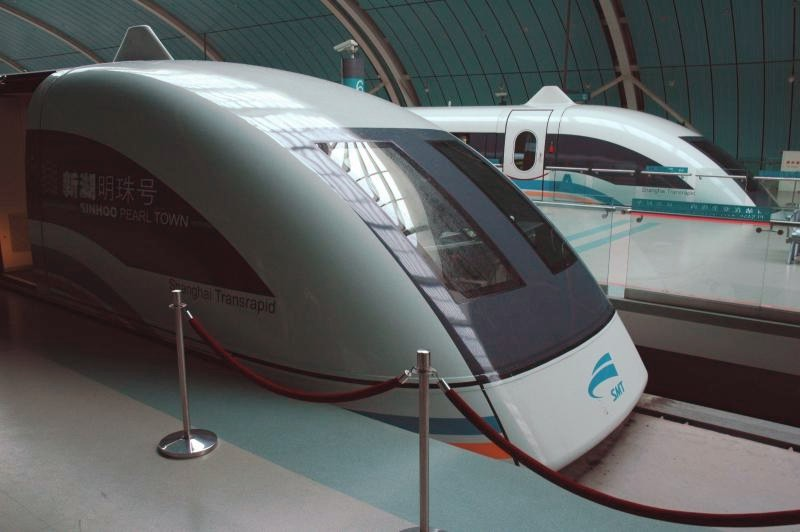 Transrapid Maglev, Shanghai.